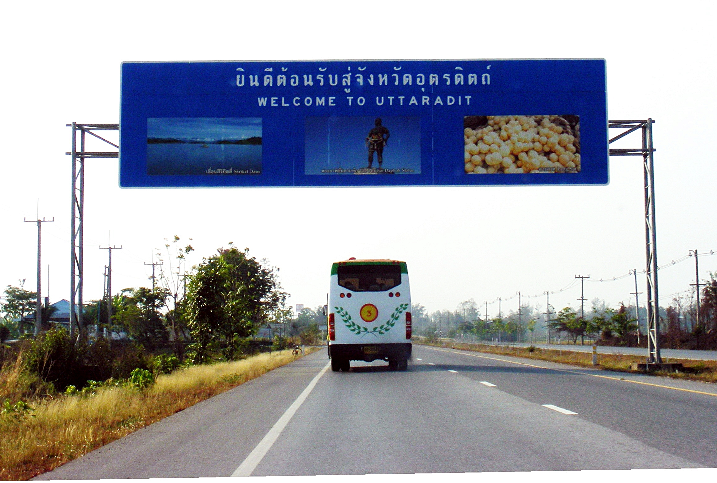 WELCOME TO UTTARADIT in main road, Mueang Uttaradit, Uttaradit Province, Thailand.